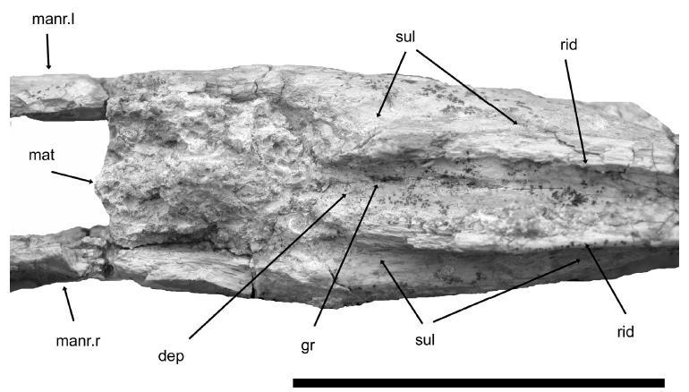 Figure 3 Argentinadraco barrealensis n.gen, n.sp., lower jaw (MUCPv-1137). Detail of the posterior end of the mandibular symphysis in dorsal view. Abbreviations: dep, depression; gr, groove; manr, mandibular ramus; mat, matrix; rid, ridge; sul, sulcus; l, left; r, right. Scale bar equals 30 mm.